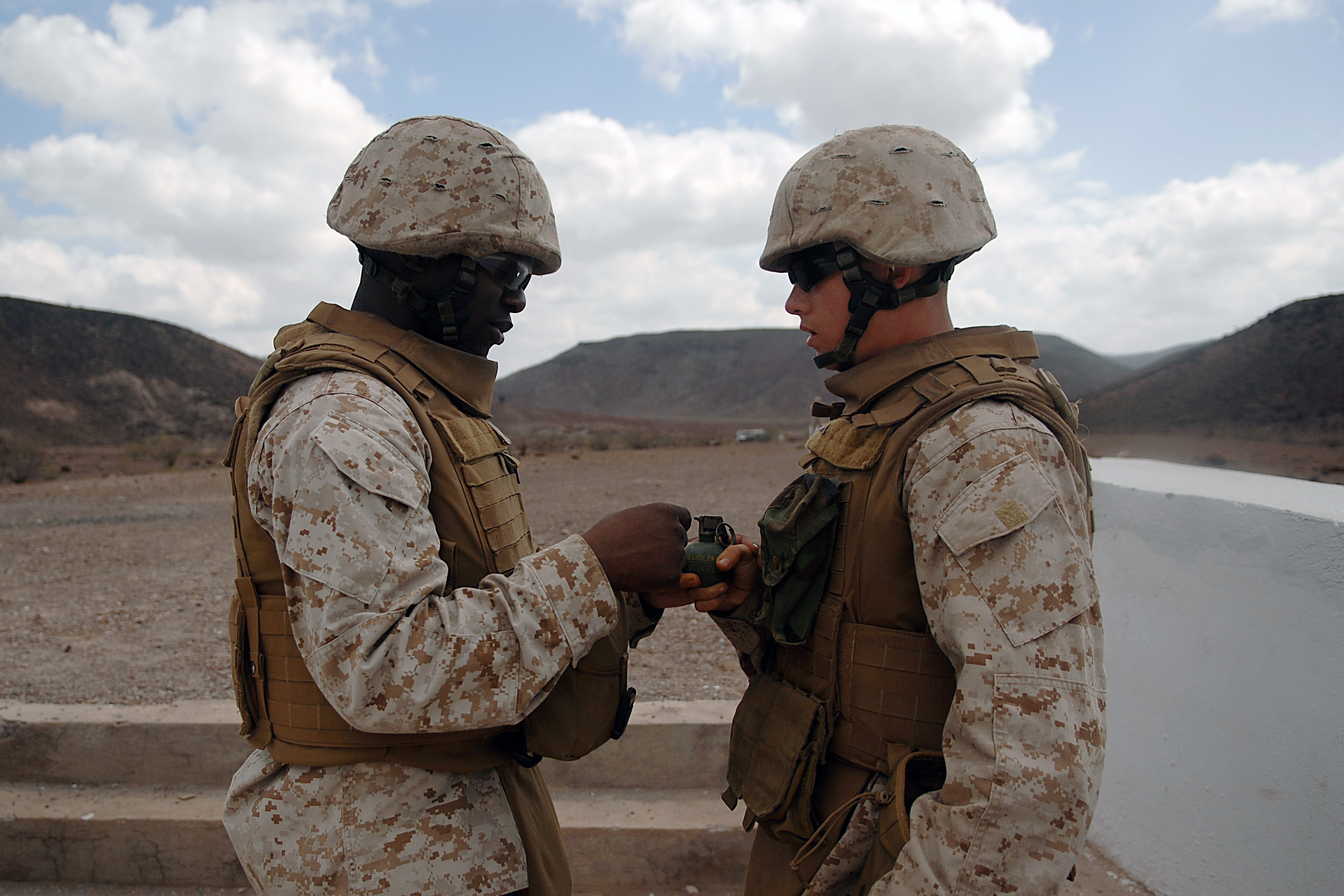 CAMP LEMONIER, Djibouti (Jan. 23, 2008) Sgt. Paul Clark assigned to the 3rd Low Altitude Air Defense Battalion, instructs Lance Cpl. Elbert O'Neal before he throws a M-67 Fragment Grenade at the firing range. The Marines will be firing the M203 Grenade Launcher, AT-4 and throwing M-67 Fragment Grenades for practice while deployed with the Combined Joint Task Force-Horn of Africa. U.S. Air Force photo by Tech. Sgt. Jeremy T. Lock (Released)